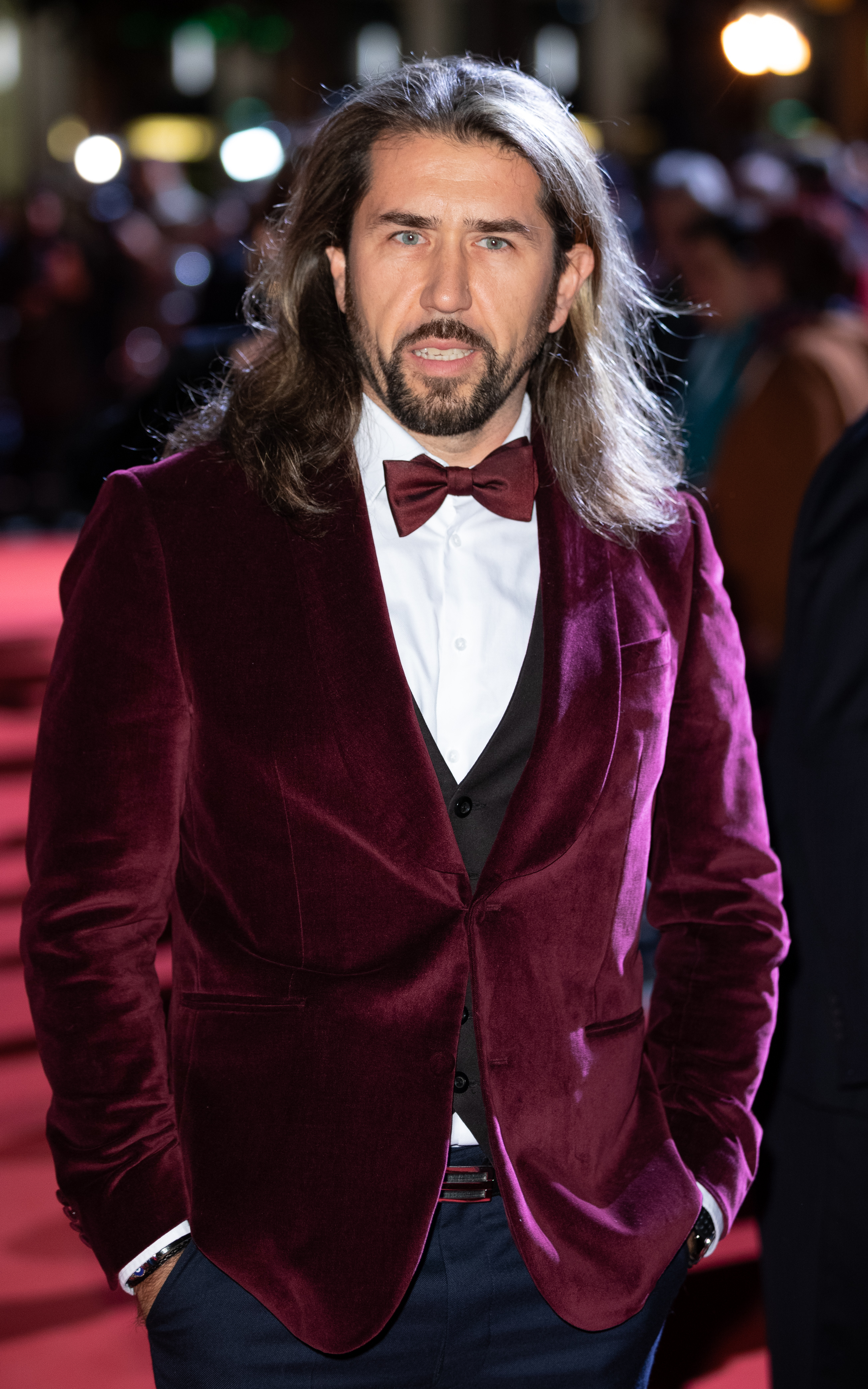 Micky Jukovic on the red carpet of the Hessian Film and Cinema Prize 2019 in the Alte Oper Frankfurt.